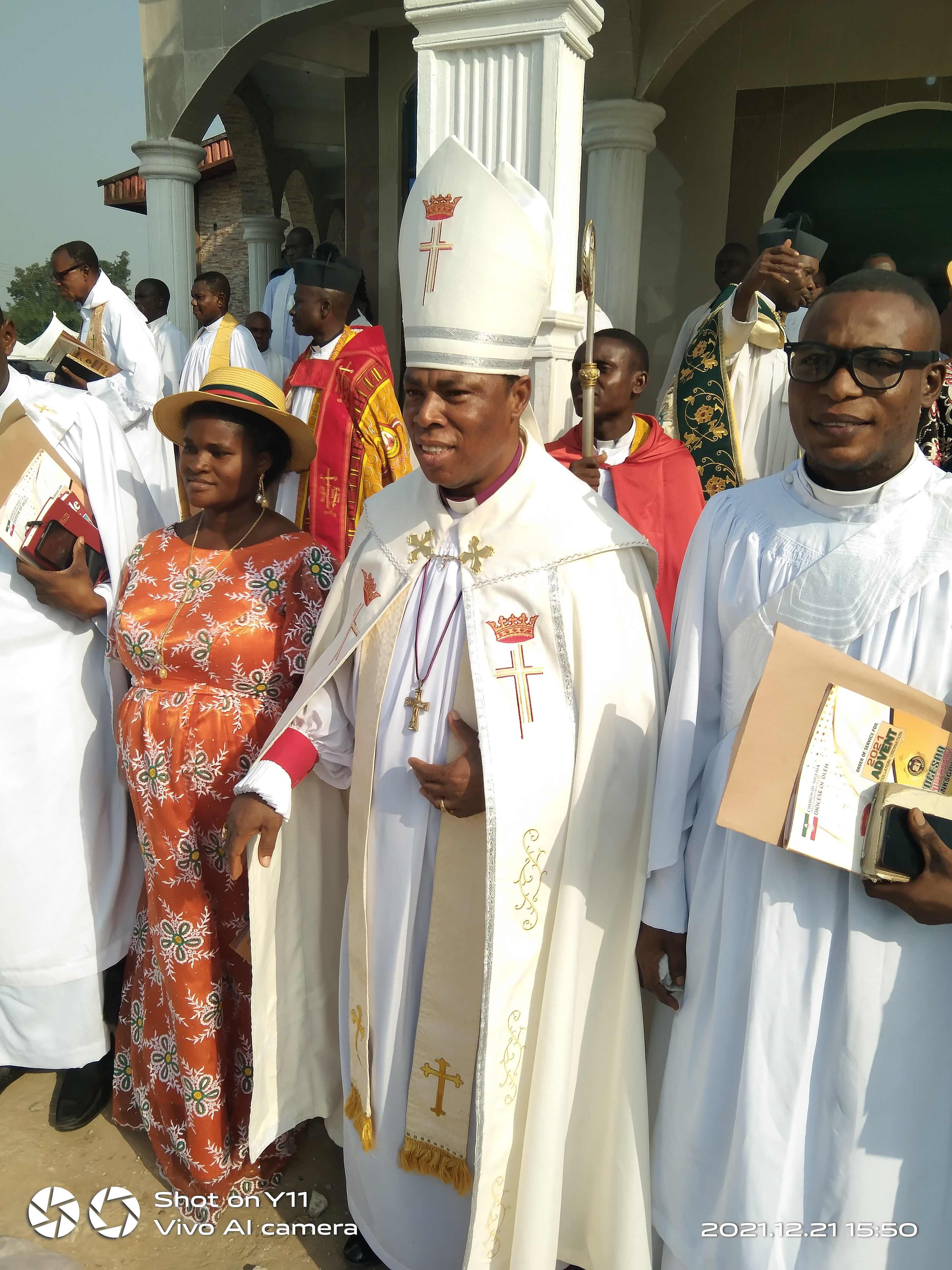 The bishop of Oleh Diocese